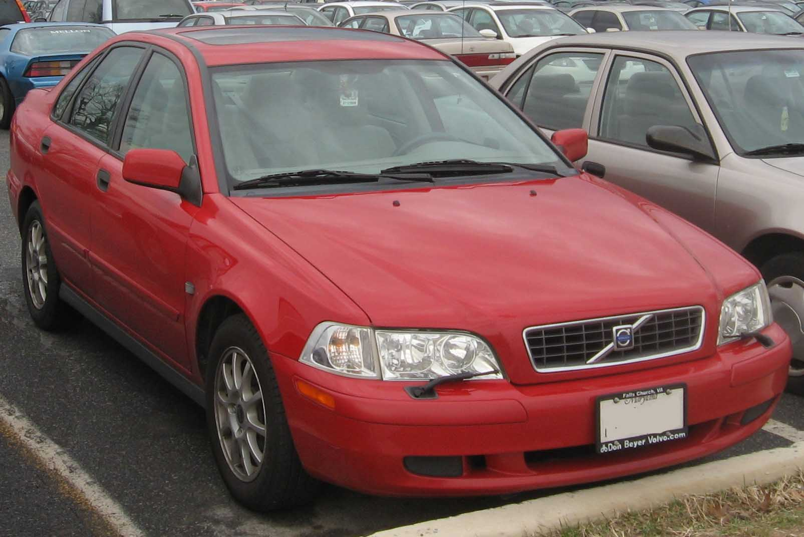 2003-2004 Volvo S40 photographed in College Park, Maryland, USA.